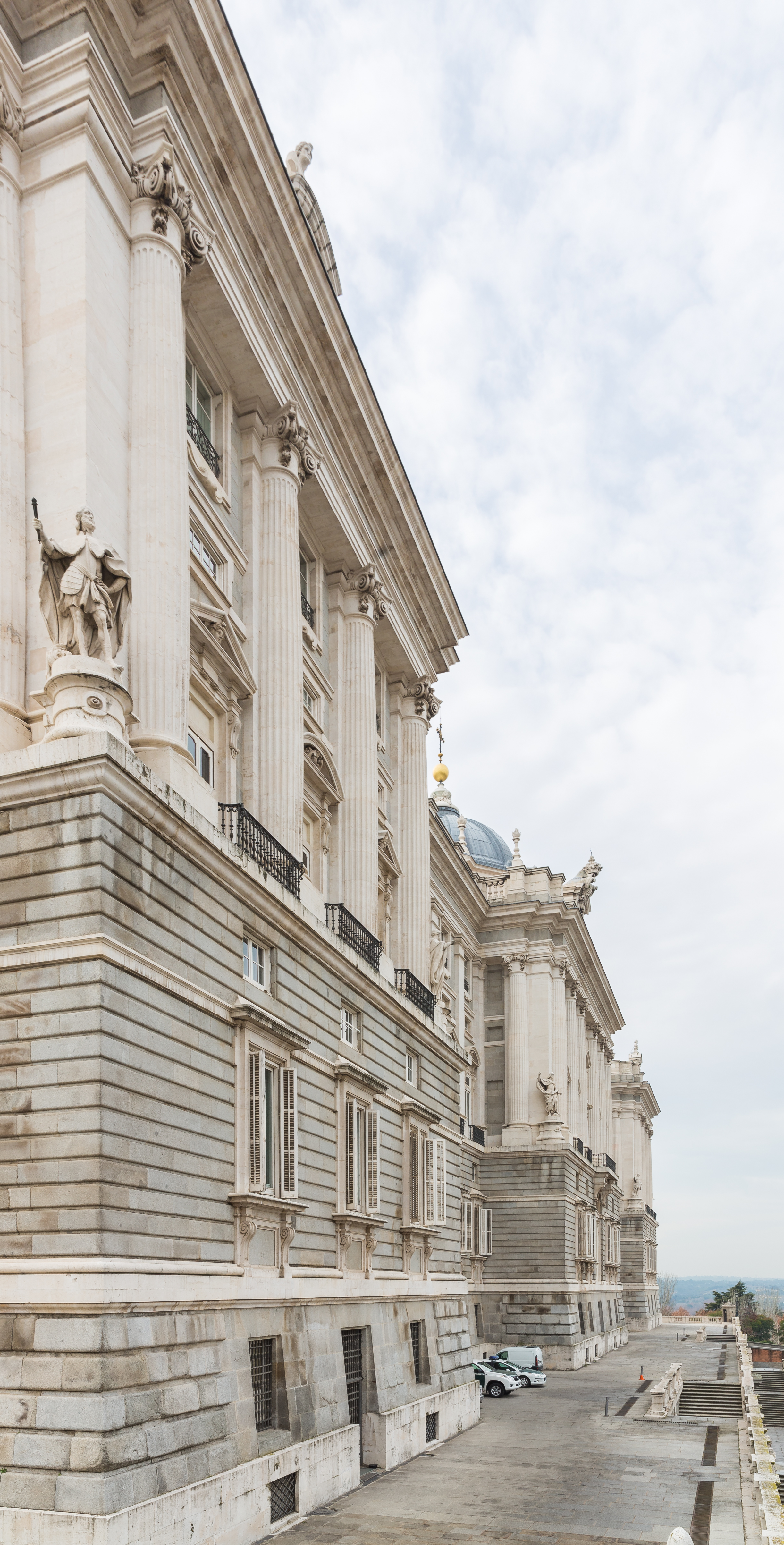 Royal Palace, Madrid, Spain